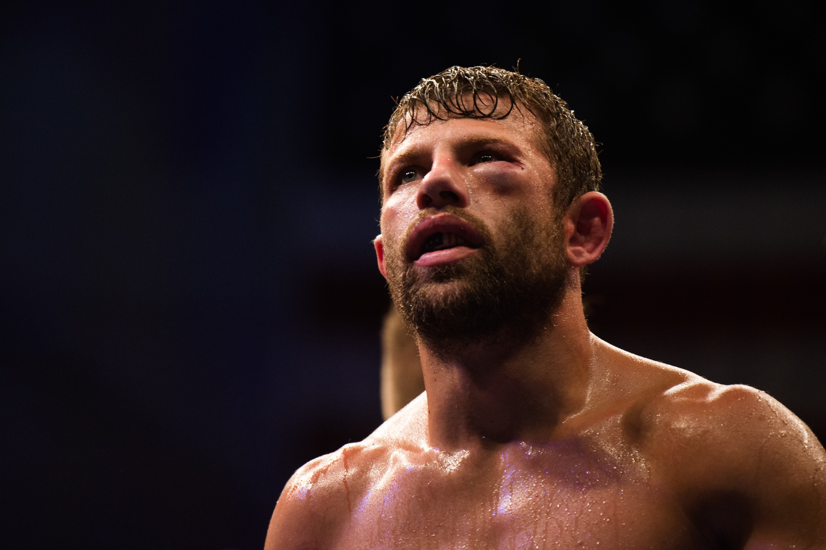 JOINT BASE LANGLEY-EUSTIS - Shaun Spath, featherweight fighter, walks out of the octagon after a live broadcast Legacy Fighting Alliance mixed martial arts fight at Joint Base Langley-Eustis, Virginia, July 27, 2018. Spath lost his fight against Ahmet Kayretli, featherweight fighter, by a technical knockout within 31 seconds. (U.S. Air Force photo by Senior Airman Tristan Biese)